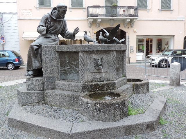 Fountain San Francesco in Vigevano